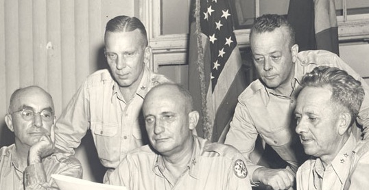 This is a photograph of the Commission of five US Generals that tried Japanese General Tomoyuki Yamashita for war crimes in 1945: Gen. Handwerk, Gen. Bullens, Gen. Donovan, Gen. Reynolds, Gen. Lester.